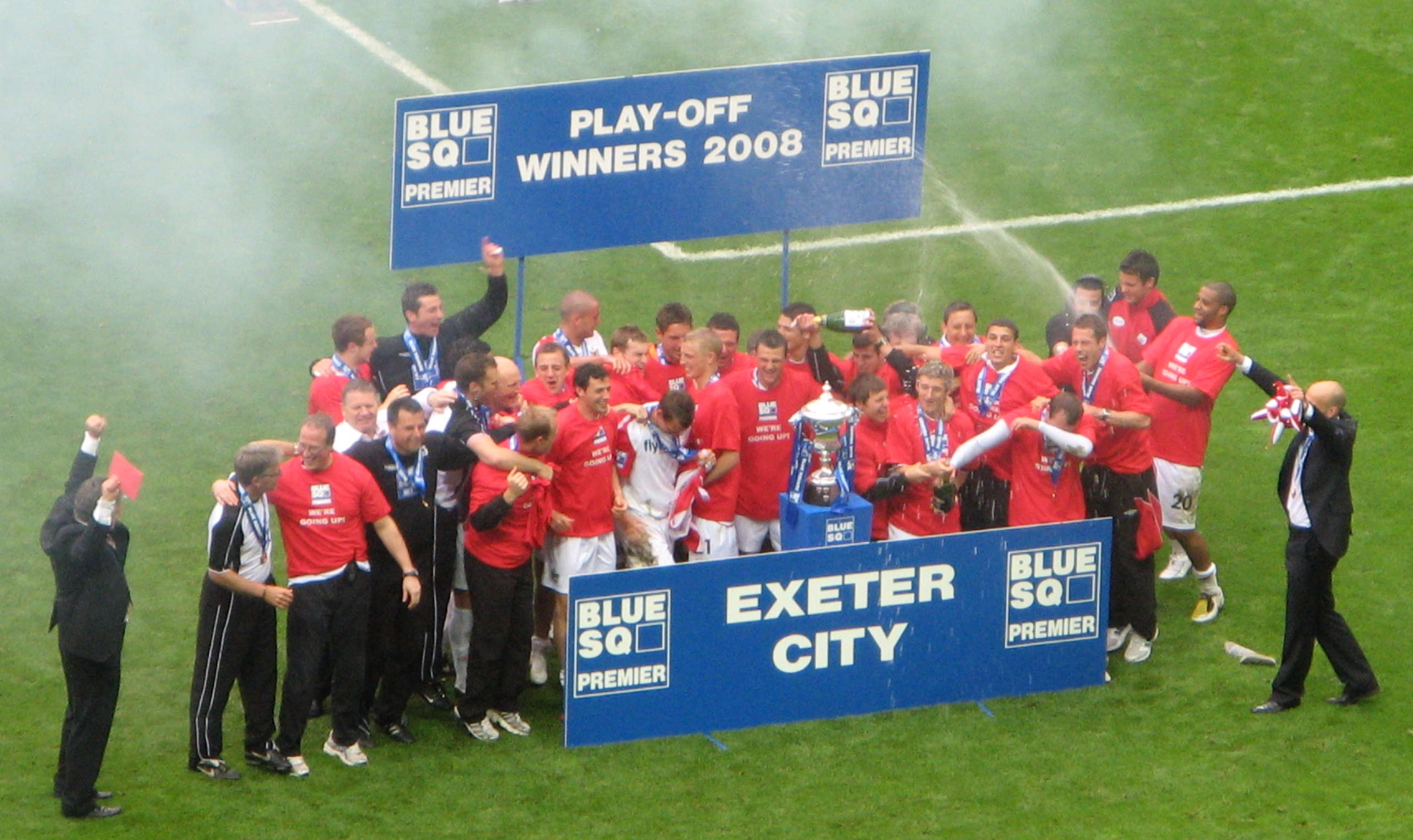 Exeter City celebrate after winning the 2008 Blue Square Premier playoff final trophy. [Cropped version]